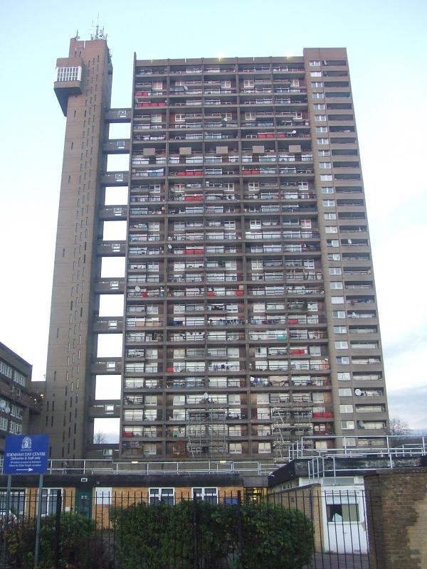 Trellick Tower